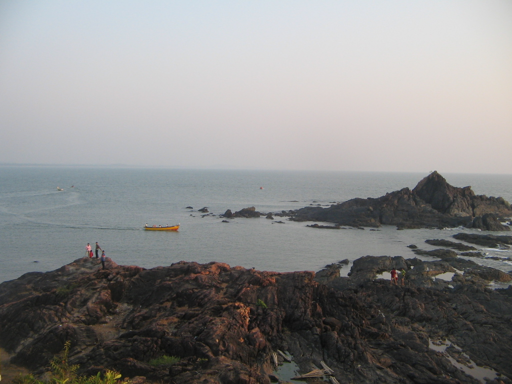 My own image